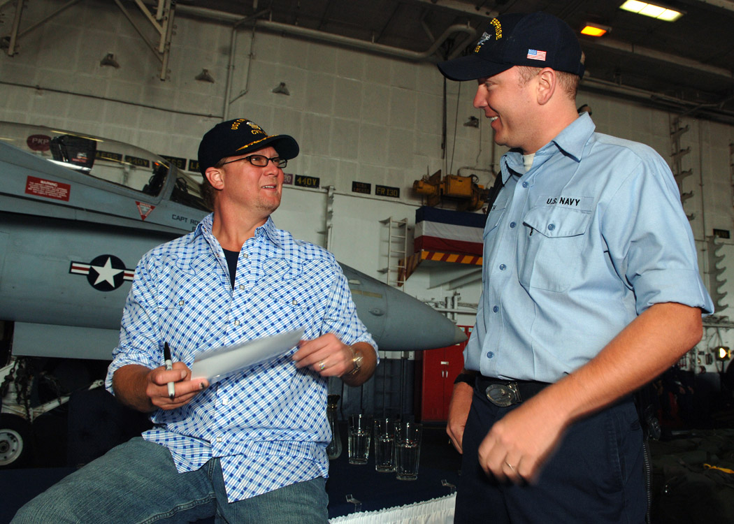 PD as work of of the U.S. federal government. Summary from original page: 070520-N-5928K-001 NORFOLK, Va. (May 20, 2007) - Country music recording artist Tracy Lawrence signs an autograph for Airman Jeremy Smith in the hangar bay of nuclear-powered aircraft carrier USS Enterprise (CVN 65). Enterprise is pier side at Norfolk Naval Base.